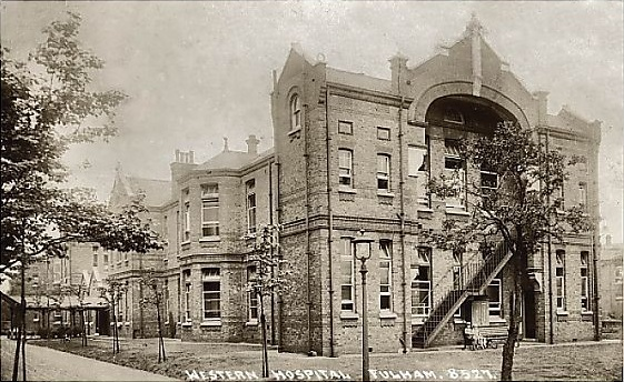 Old Postcard of the Western Hospital, Fulham